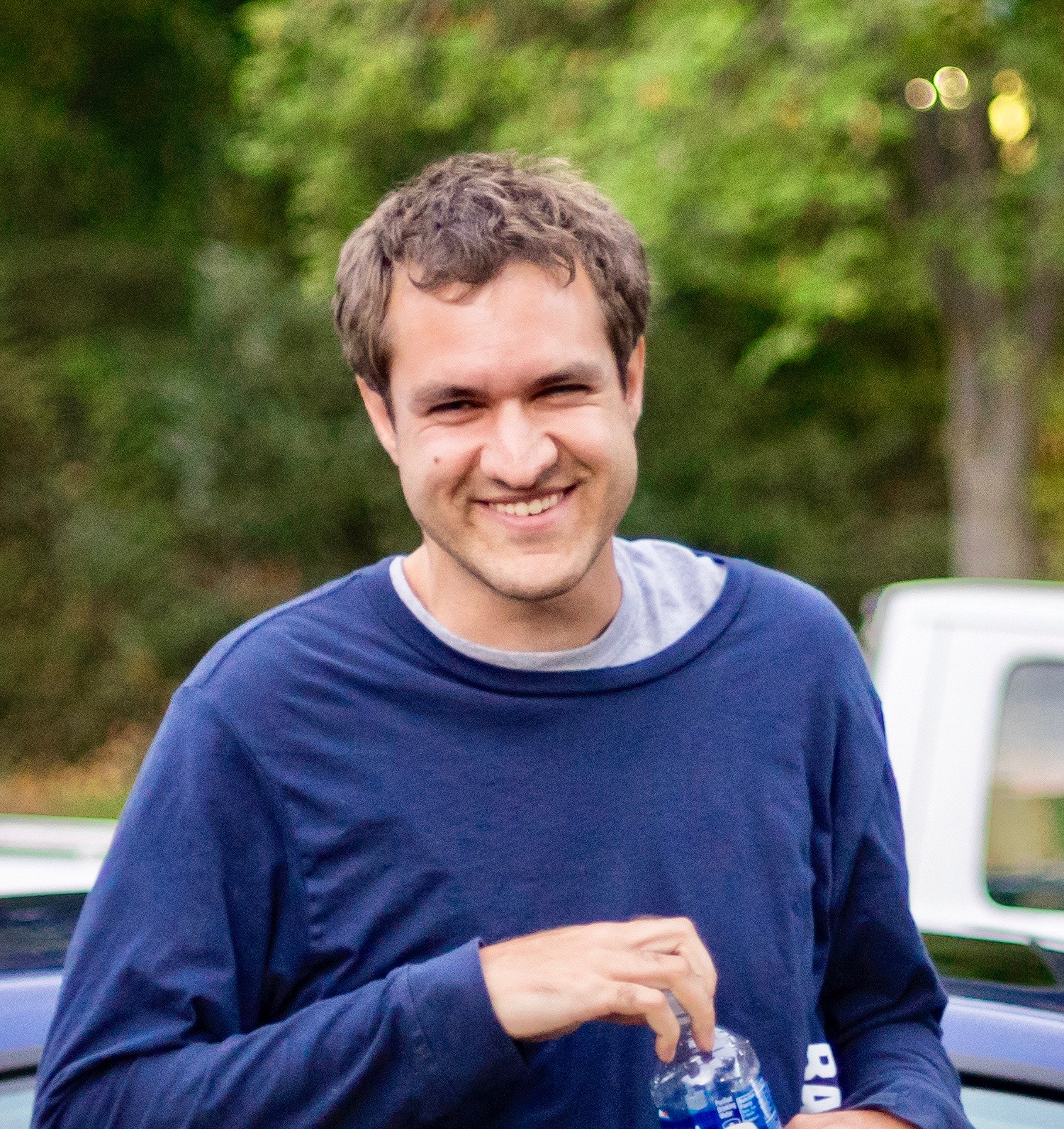 An image of Doug DeMuro taken in Boise, Idaho. This image was taken on 9/17/16.